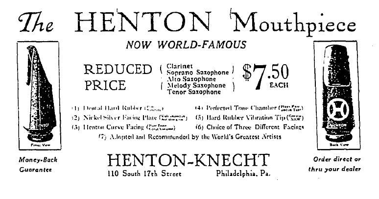 A newspaper advertisement for a saxophone mouthpiece, invented by famous alto saxist H. Benne Henton.